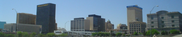 Downtown El Paso - Photo Taken by: (me) Steven Salazar It is in the Public Domain